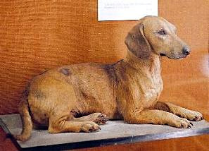 Author: Sarah Hartwell (Messybeast). Old-style dachshund. Rothschild Zoological Museum, Tring, England. own work. Uploaded by self.